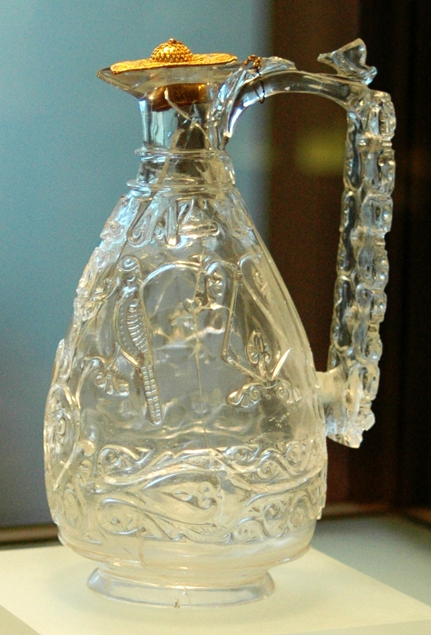 Ewer with birds, given by Roger II of Sicily to Theobald II, Count of Champagne, who donated it to the royal abbey of St Denis ca. 1150. Body: rock crystal (Fatimid art, late 10th century–early 11th century); lid: filigreed gold (Italy, 11th century).